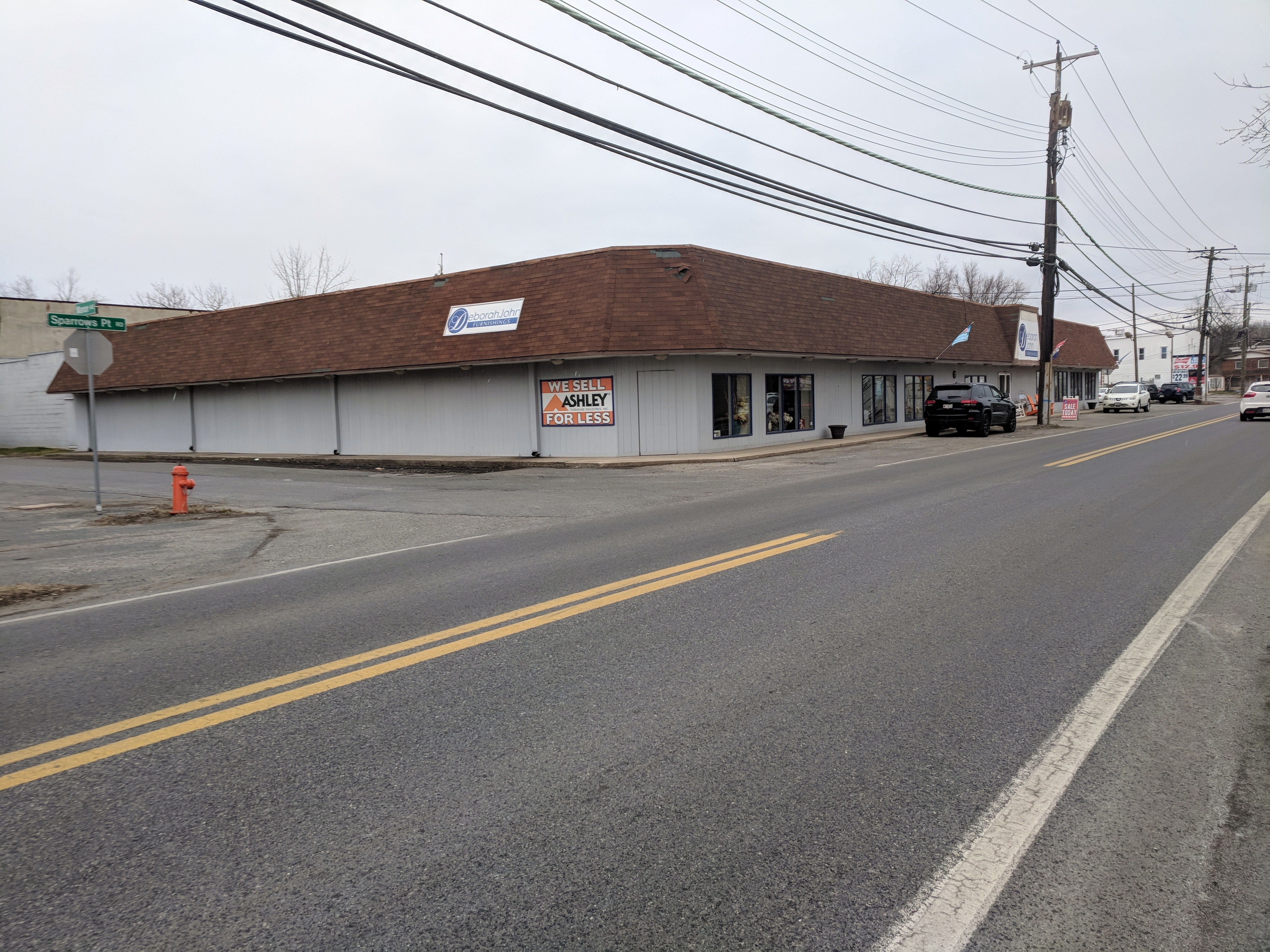 DeborahJohn Furnishings, a furniture store in Edgemere/Sparrows Point, Baltimore County, Maryland. The building was formerly the site of Fradkin Brothers Furniture, a furniture retailer founded by a Russian Jew who emigrated to Baltimore.